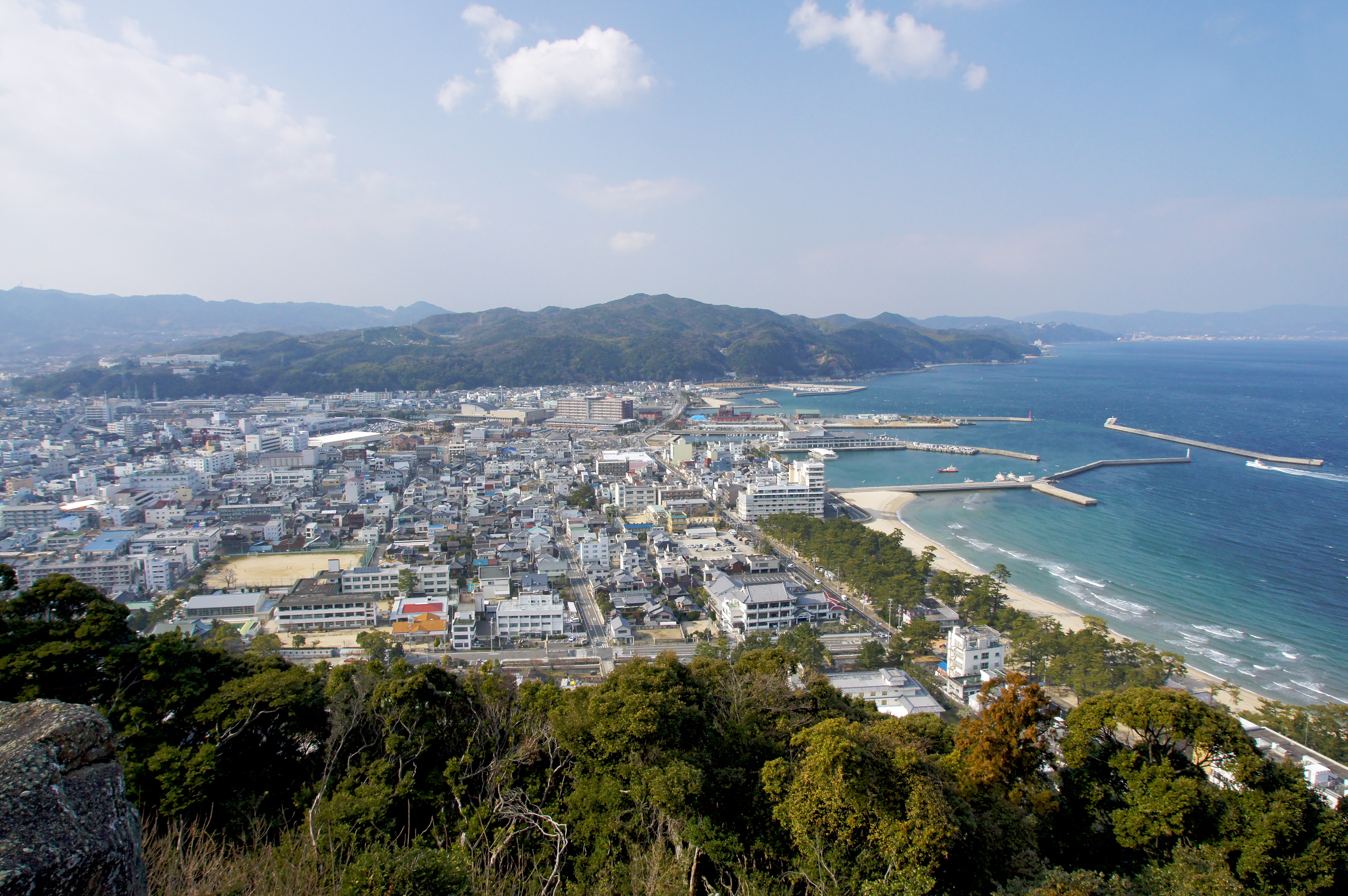 View from Sumoto Castle in Sumoto, Hyogo prefecture, Japan.